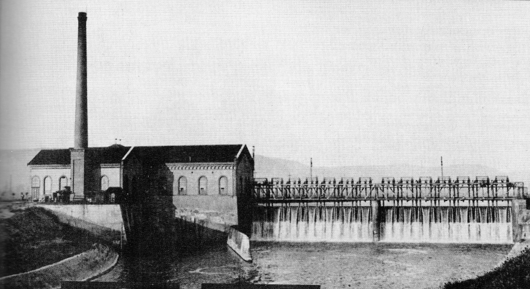 Power Plant in Kiebingen near Rottenburg driven by water (and coal)